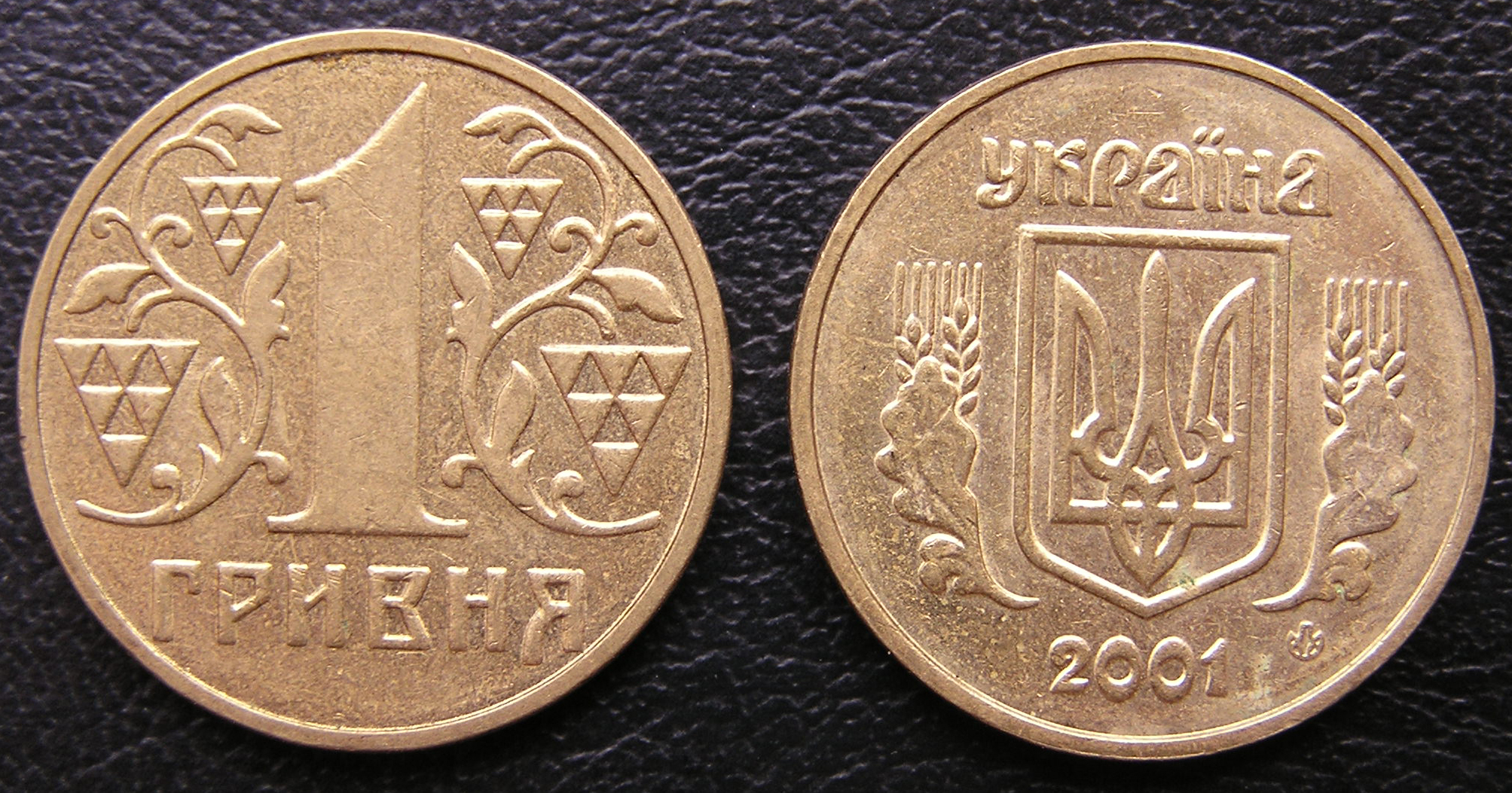 Coin 1 hryvnia. Ukraine